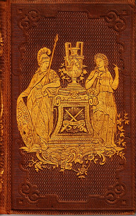 Gilt cloth binding showing allegoric symbol of Vindicat atque Polit, the Groningen) students' association. On 'Studentenliederen' (=Students songs), published 1854 by P. van Zweeden in Groningen.